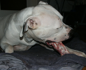 Dog eating a neck of lamb raw